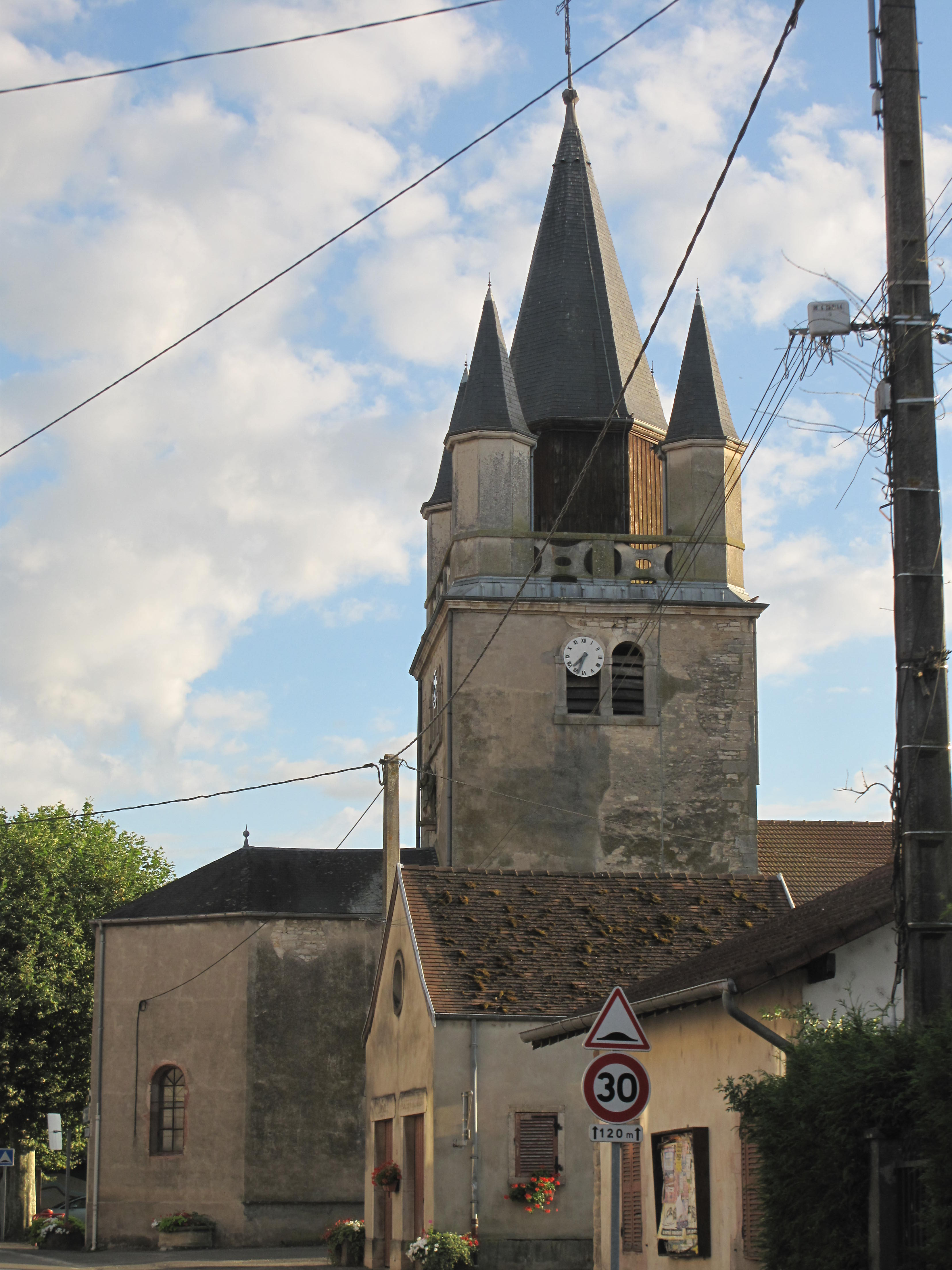 Church Saints Peter and Paul of Sermoyer (Ain, France).